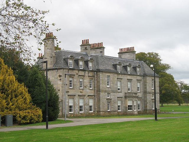 Bush House House and estate now host the Centre of Rural Economy with Edinburgh University, Scottish College of Agriculture and a biotechnology park.